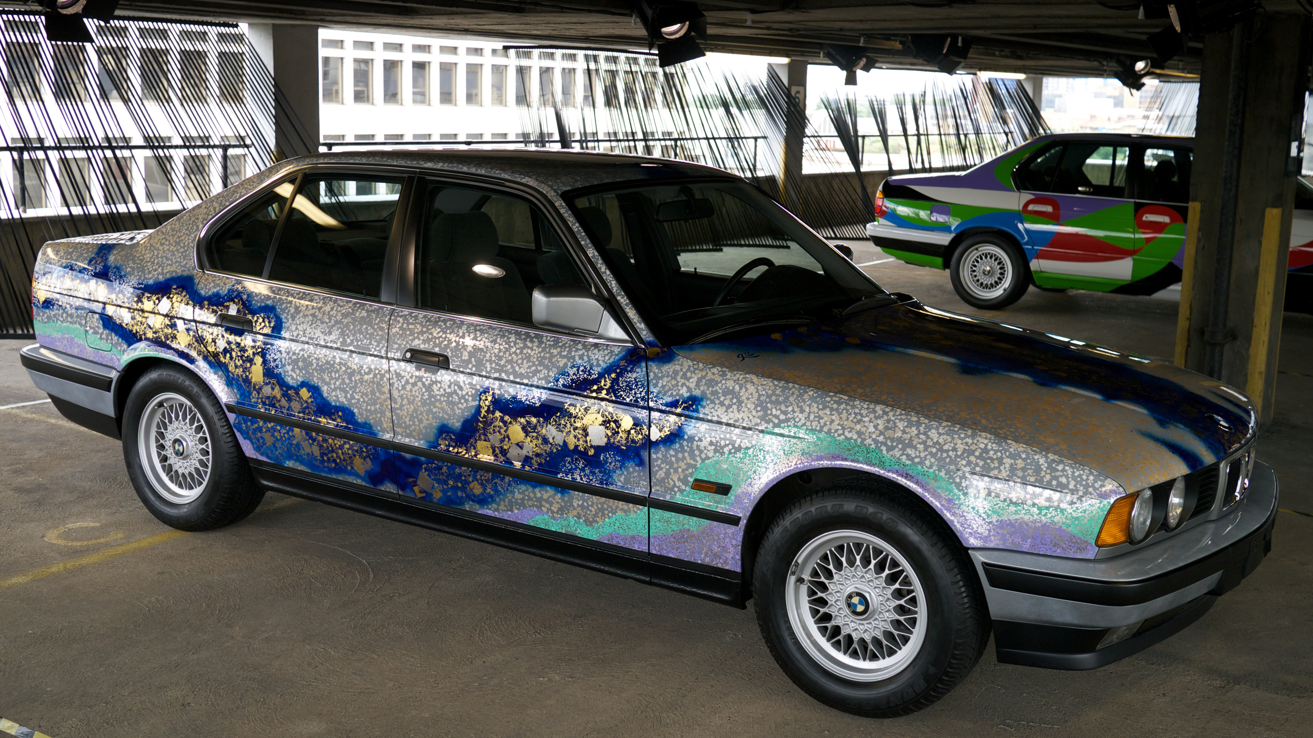 Matazo Kayama's 1990 BMW 535i at a London show of the BMW Art Car Collection 1975-2010 (Hackney, London 2012)